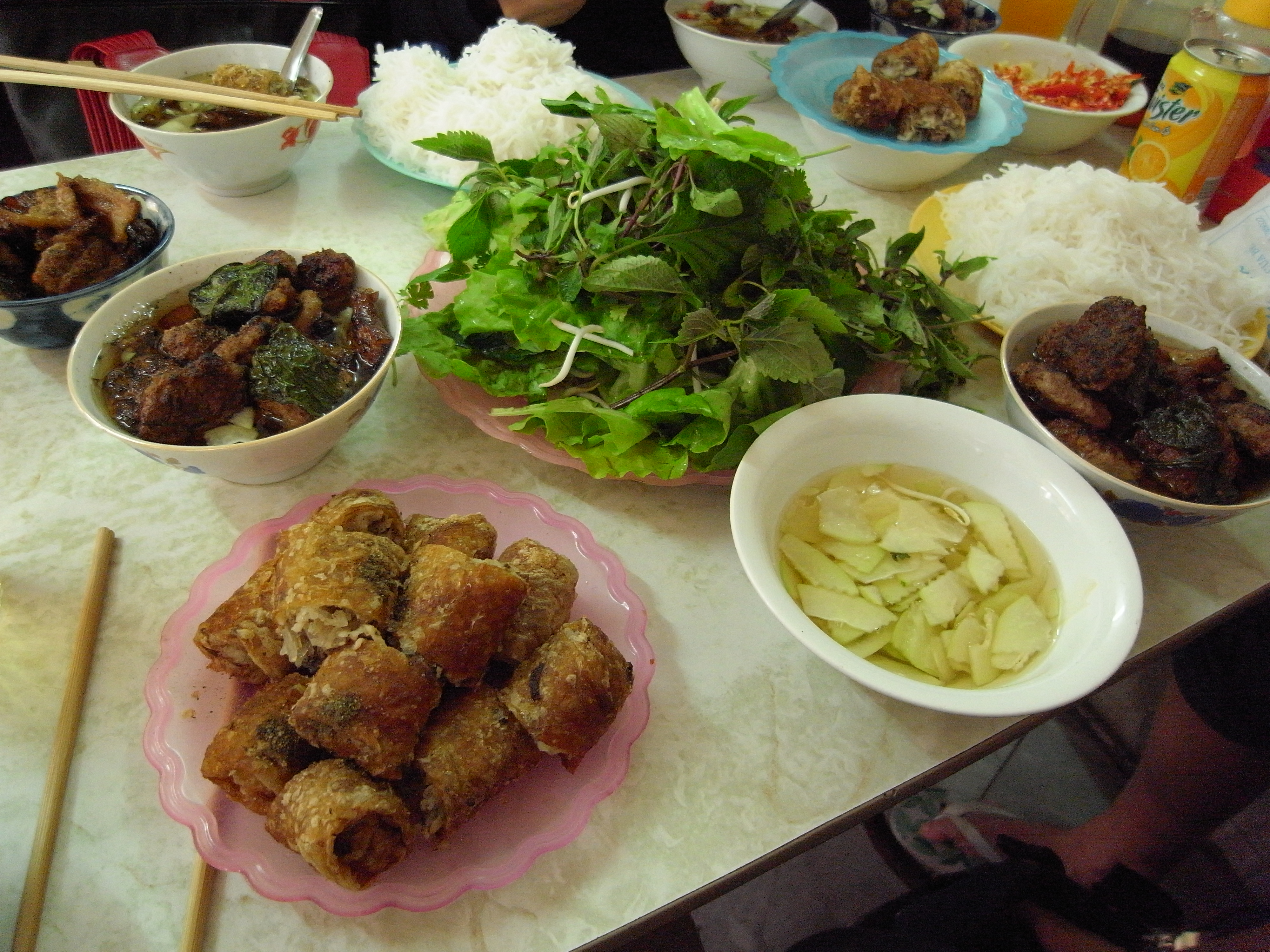 Highly recommended. Big portions and great taste. A 2-story restaurant located at 1 Hang Manh road.